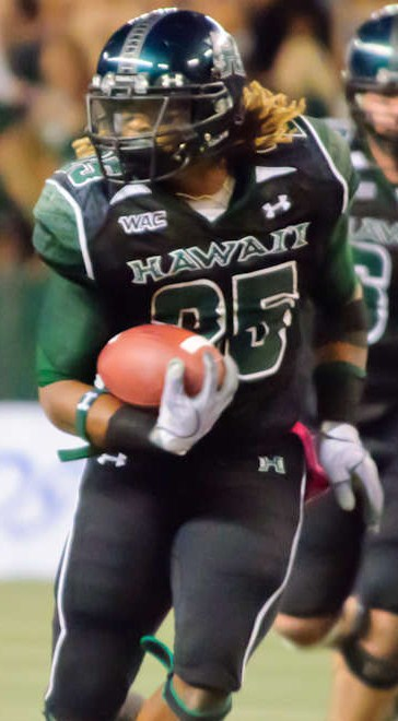 Alex Green Carrying the ball for the Green Bay Packers